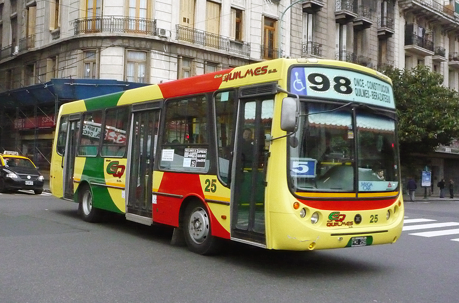 Metalpar Tronador bus (#25) with Agrale chassis in Buenos Aires Province, Argentina. Colectivo, line 98, Expreso Quilmes S.A. operator.